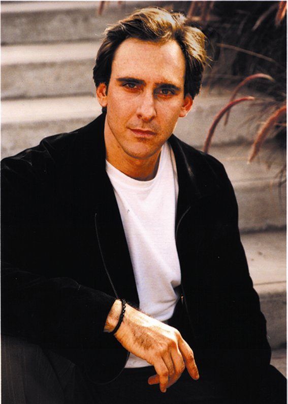 Marcelo Breit, Buenos Aires, Argentina